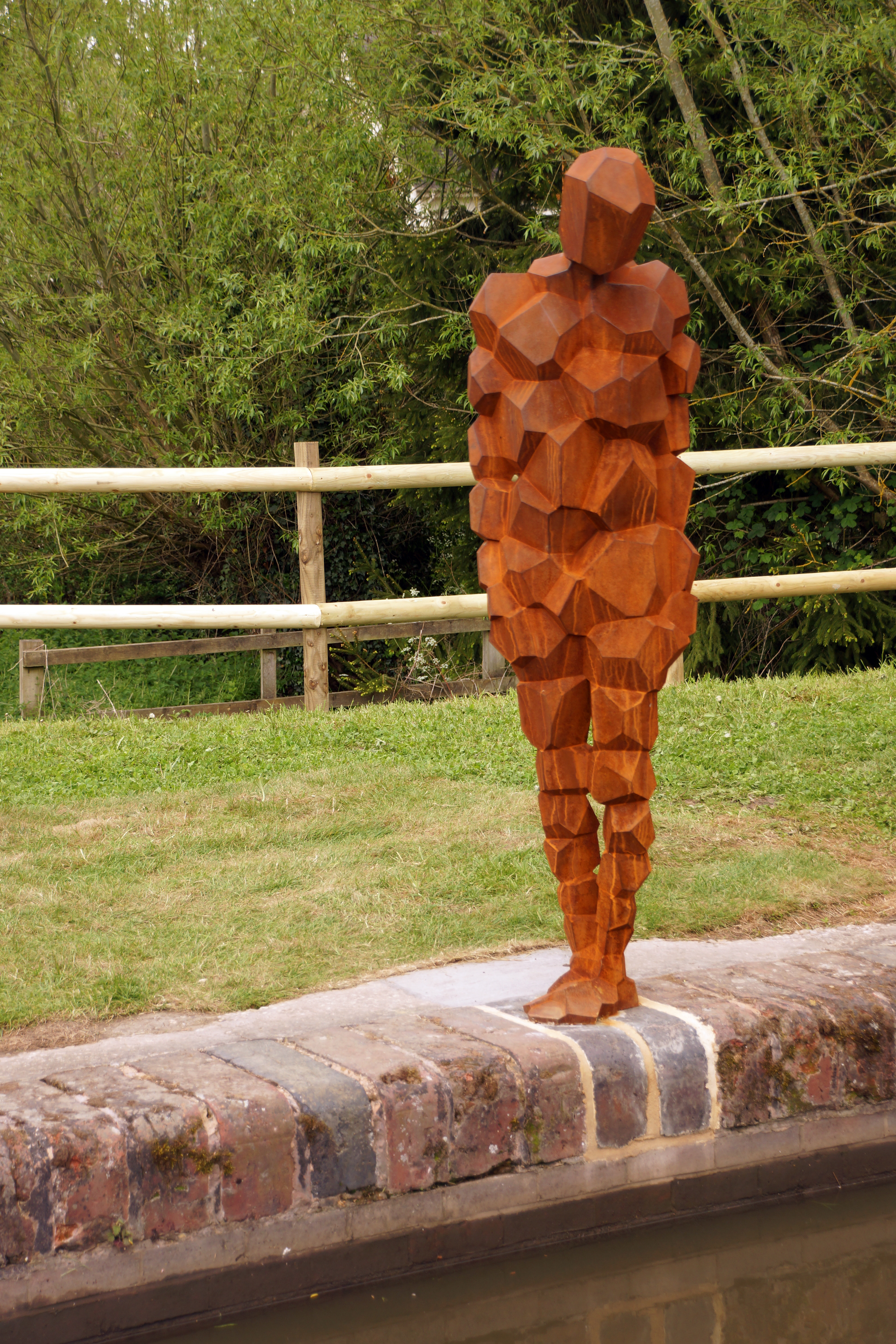 Iron life-sized sculpture - Land - by Antony Gormley at the Lengthsman's Cottage, Lowsonford, Warwickshire, England, at its opening day, 17 May 2015.